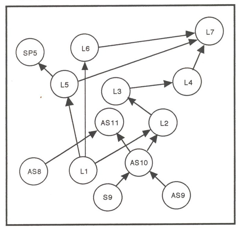 A Section of the Mathematics Hierarchy